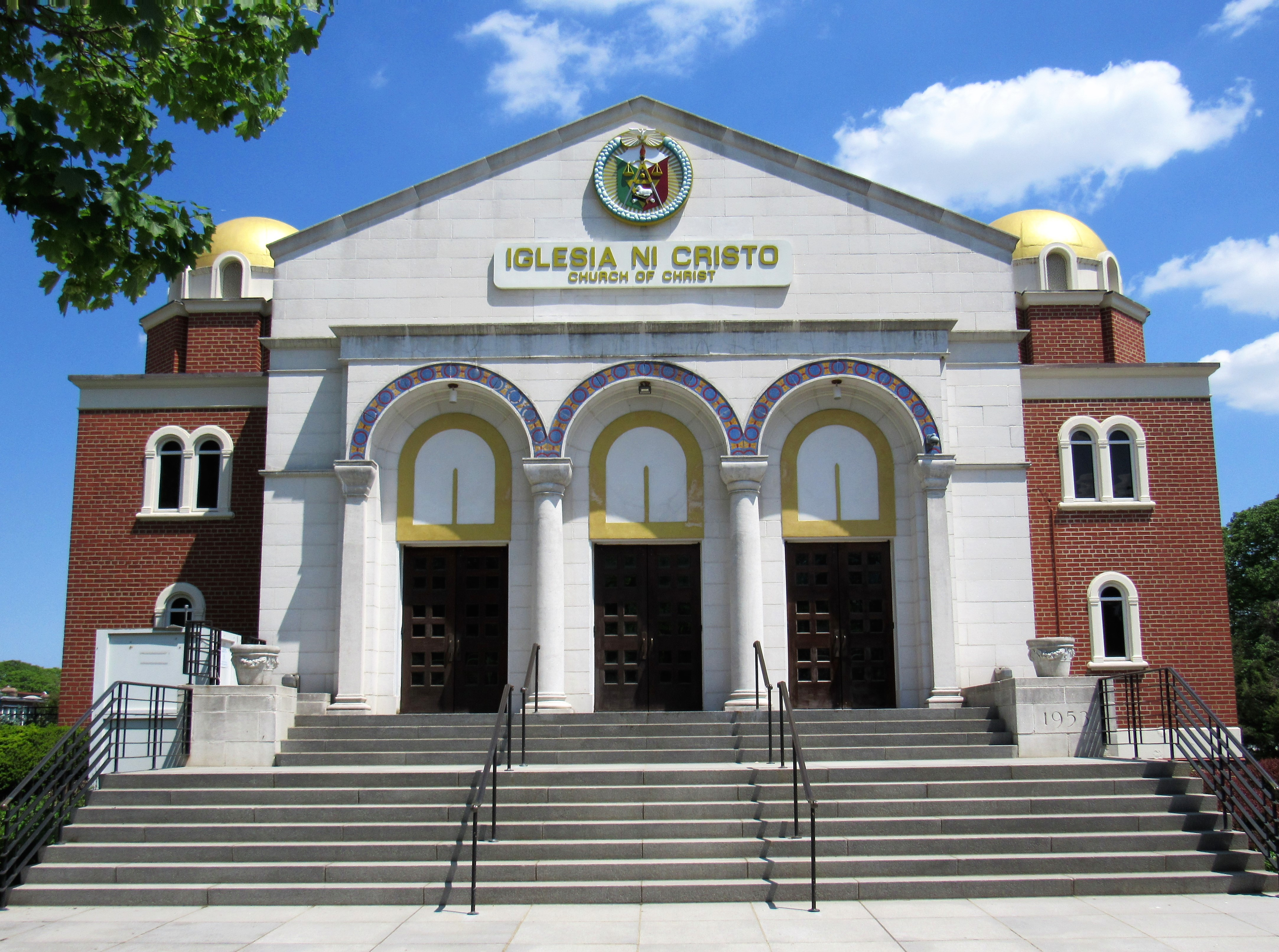 Iglesia Ni Cristo (Church of Christ) on 16th Street, NW in Washington, D.C. It was built as Saints Constantine & Helen Greek Orthodox Church.